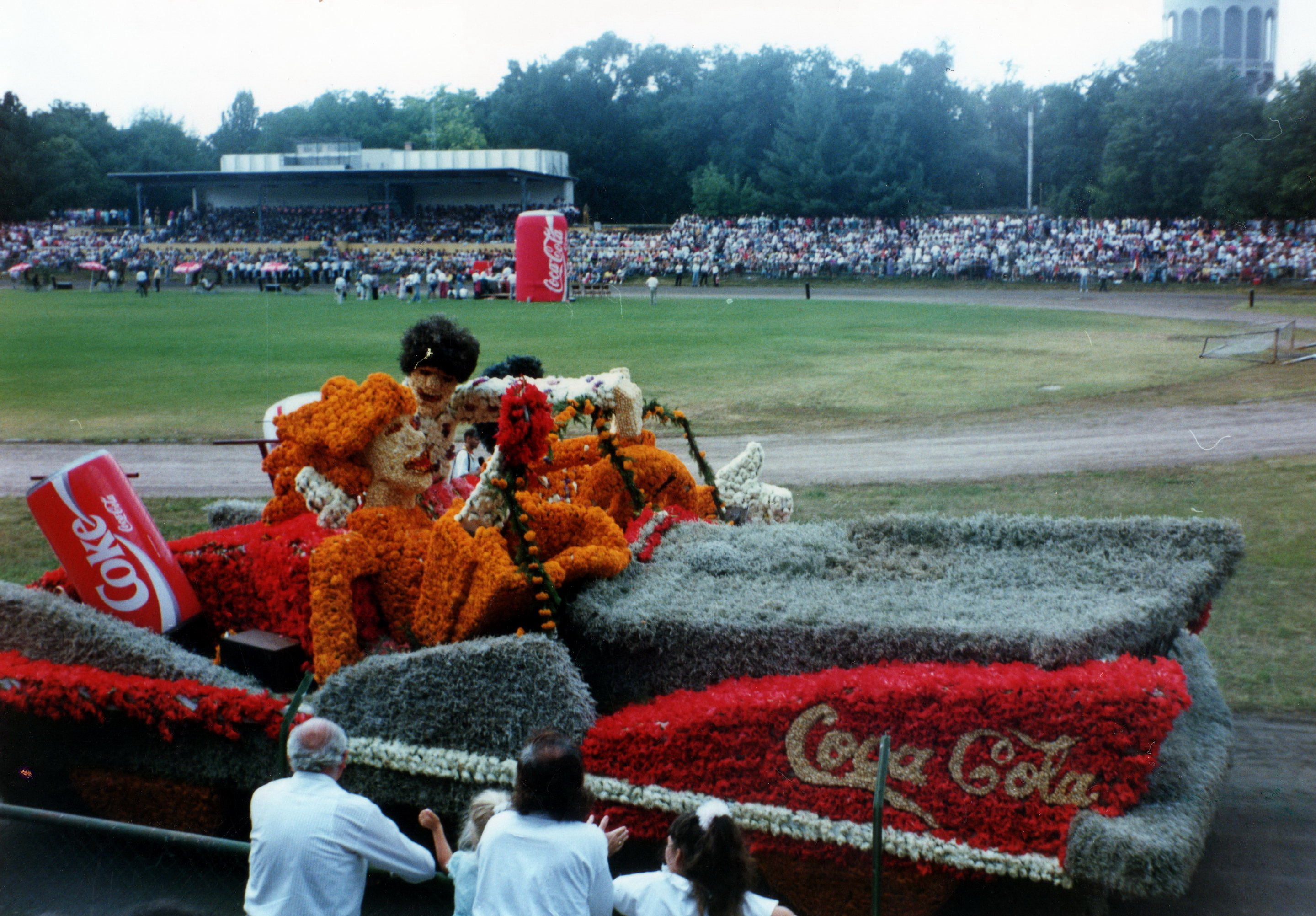 Debrecen, Flower Festival